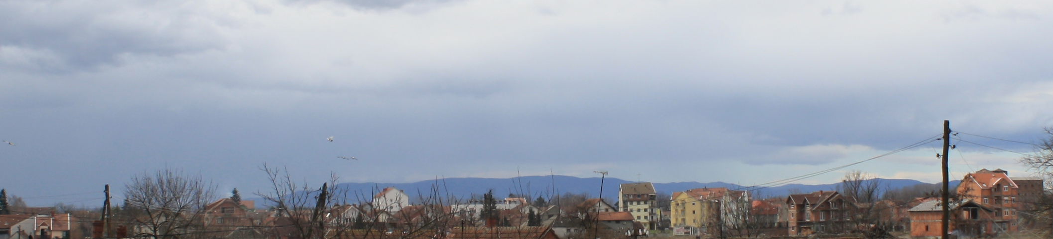 Look on Cer mountain from town of Šabac